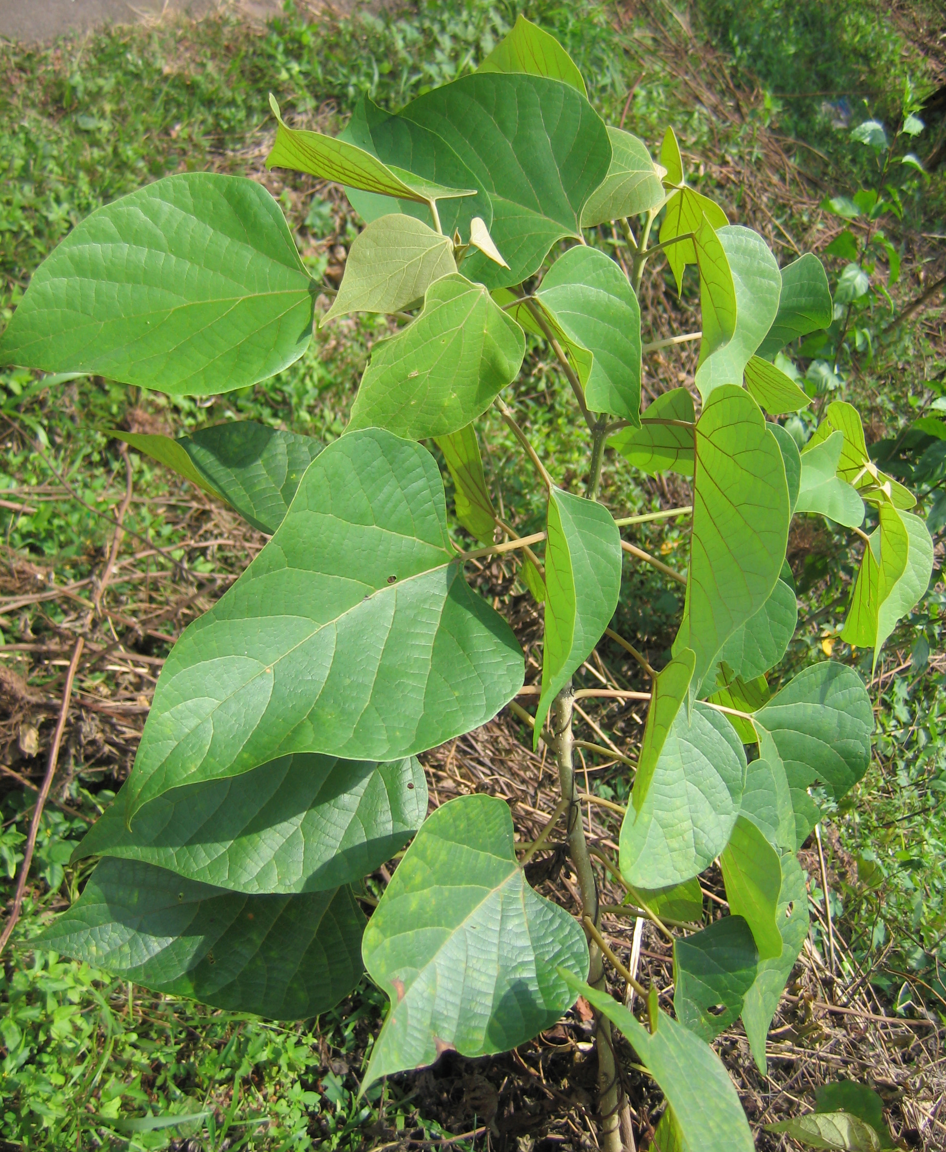 Gmelina arborea - കുമ്പിൾ